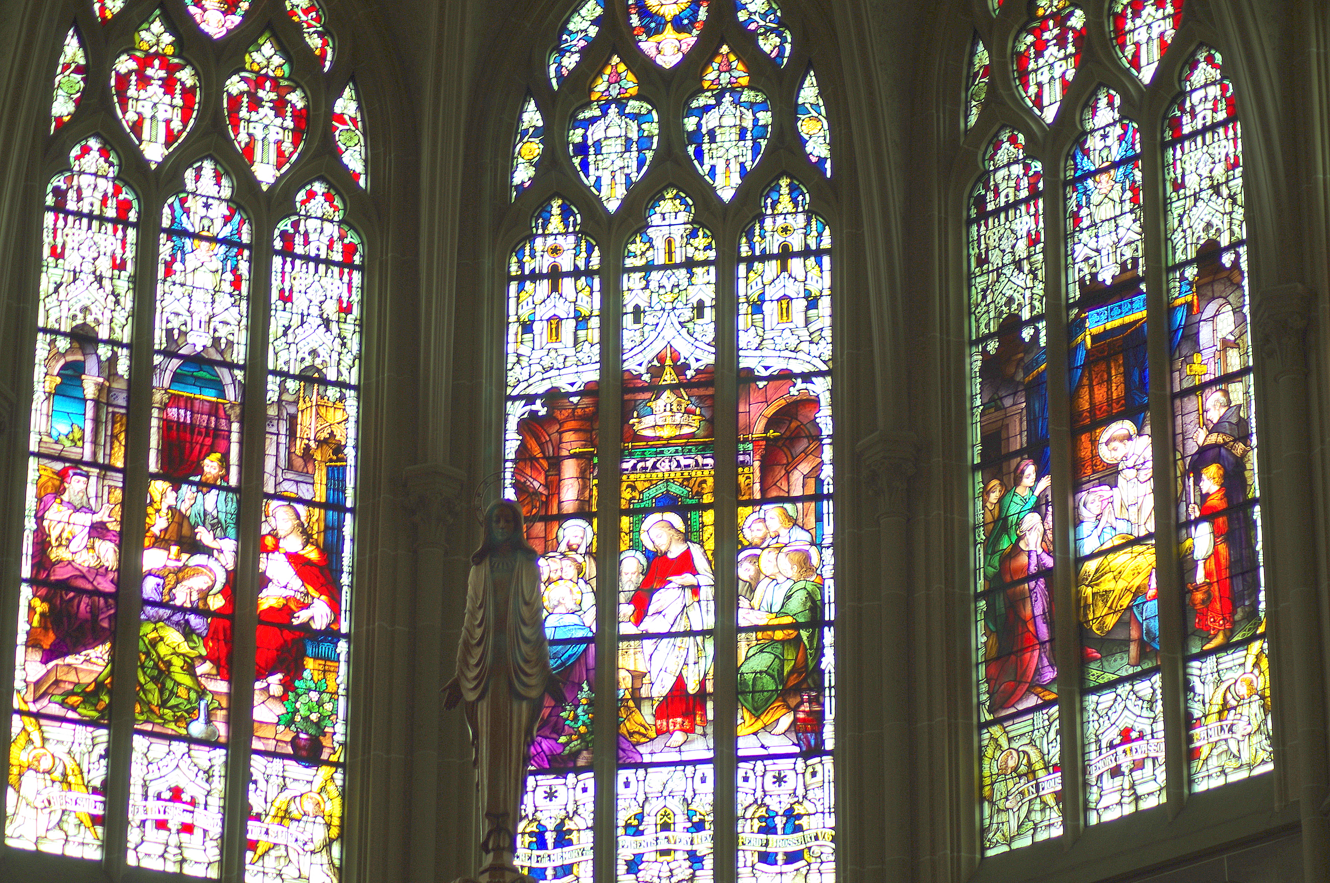 Saint Mary's Cathedral Basilica of the Assumption in Covington, Kentucky statue of the Blessed Virgin Mary standing on top of the baldachin with stained glass windows behind it